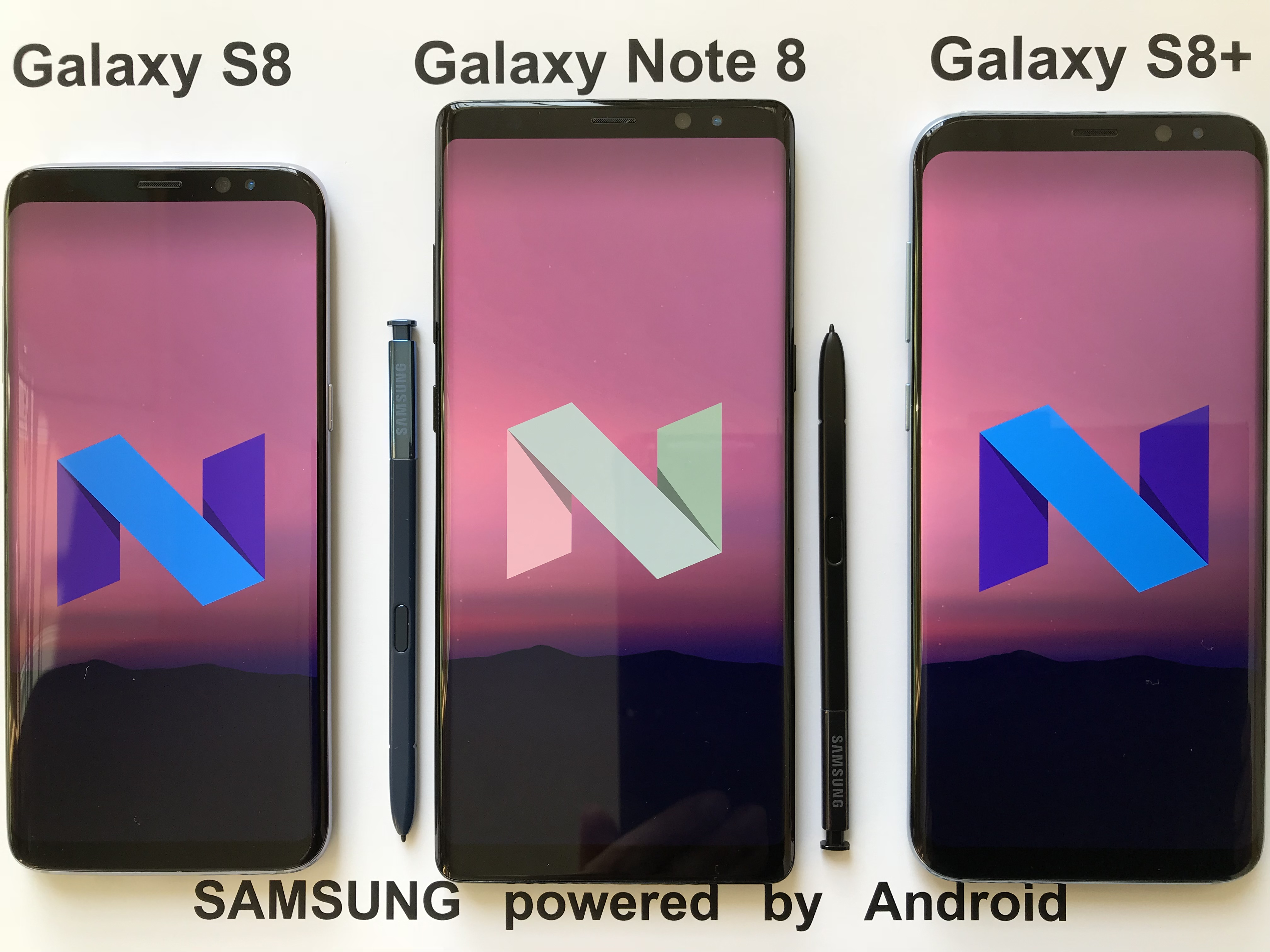 Android 7.x Nougat